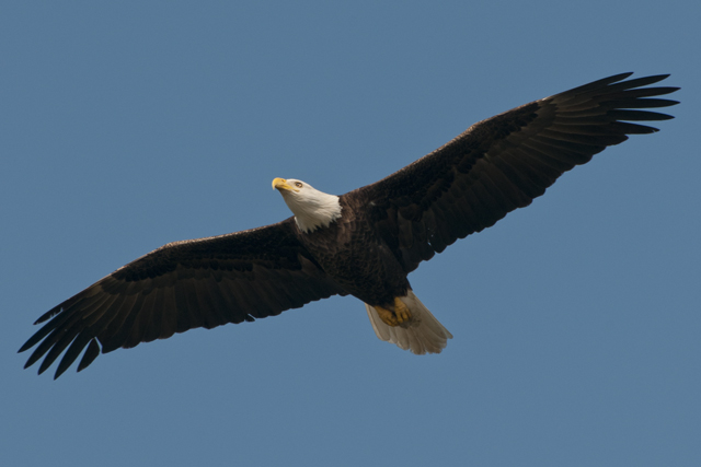 Bald Eagle In Flight By Carole Robertson